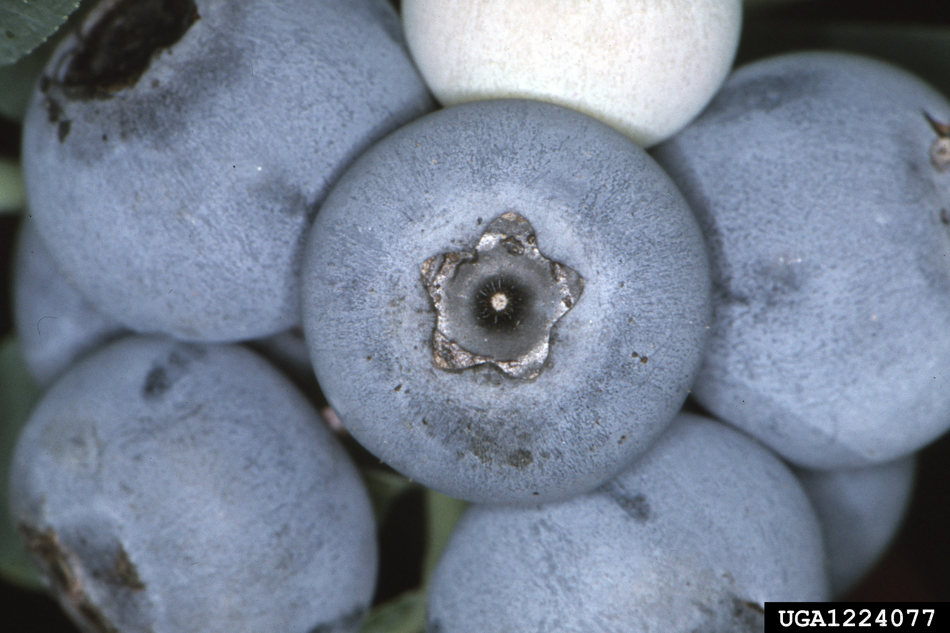 rabbit-eye blueberry, Vaccinium virgatum